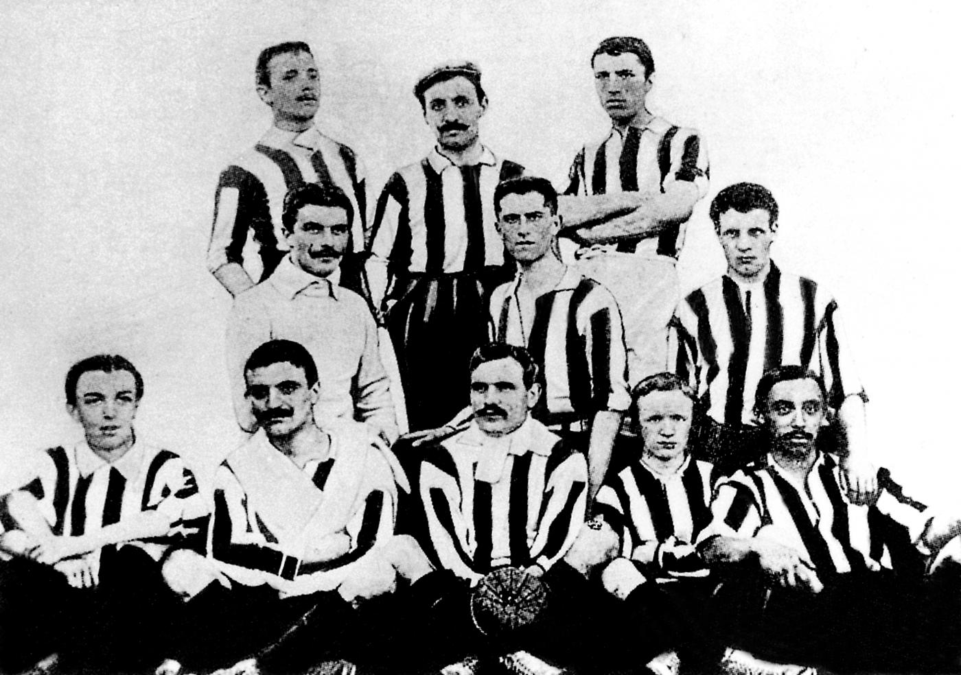 A line-up of F.B.C. Juventus in the 1904–05 season. From left to right, top: G. Armano (I), P. A. Walty, O. Mazzia; middle: L. Durante, G. Goccione, J. Diment; bottom: A. Barberis, C. V. Varetti, L. Forlano, J. Squair, D. Donna.